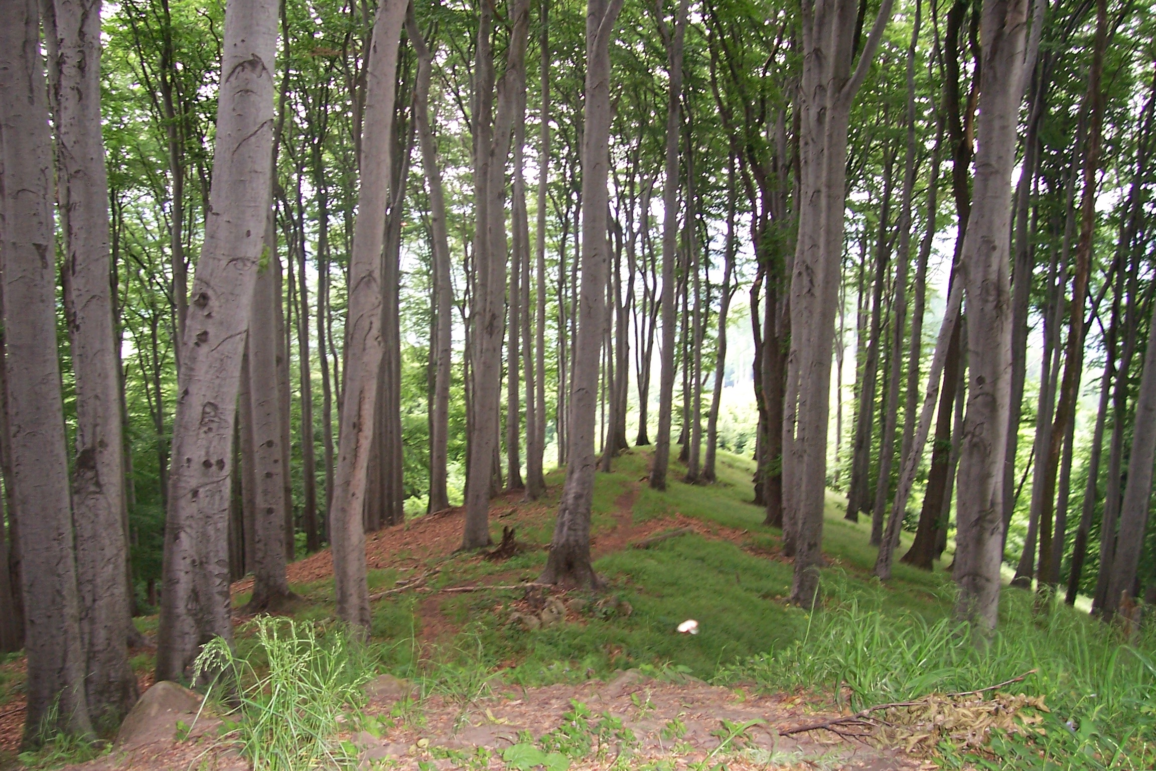 Holý kopec (natural monument) in Uherské Hradiště District, Czech Republic.